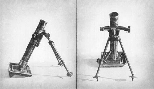 Kz. 8 cm. Gr. W. 42: Short Mortar Published on December 31, 1943 This weapon is of the same general design as the standard 8 cm mortar (s. Gr. W. 34) described on page 114. It is, however, shorter and lighter. It differs from the original weapon in the following respects: The Model 42 has a shorter barrel with no striker control bolt at the base. It has a smaller baseplate, square in shape, with no carrying handle. The barrel is fastened to the baseplate by a spring catch. It also has a smaller bipod.